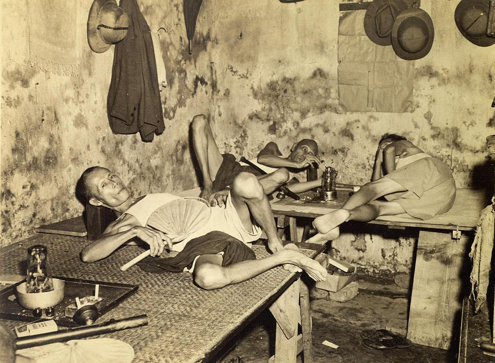 A little snooping in Chinatown will turn up the little opium dens stuck down an alley (not recommended without police escort). Actually, the smokers shown in this picture do it legally. Each den is licensed for so many pipes. Each pipe costs a rupee, a phial of opium five rupees. Average smoker consumes a phial a day and there are about 186 pipes licensed in Calcutta.